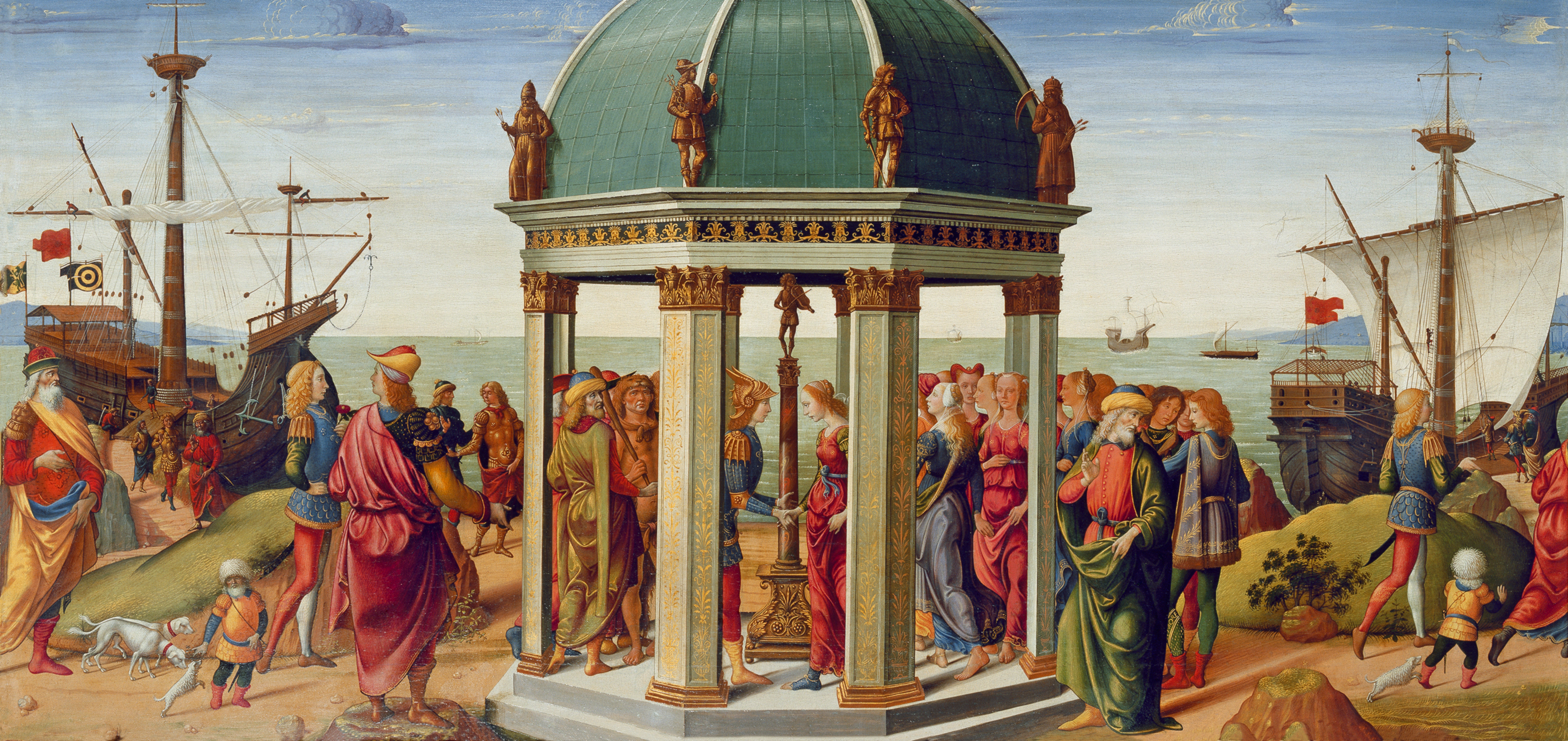 Biagio d’Antonio (Florentine, 1472-1516), The Betrothal of Jason and Medea, 1487, Tempera on panel, 32-5/8 x 64-3/8", Museé des Arts Décoratifs, Paris.